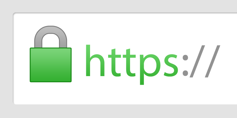 HTTPS "icon"